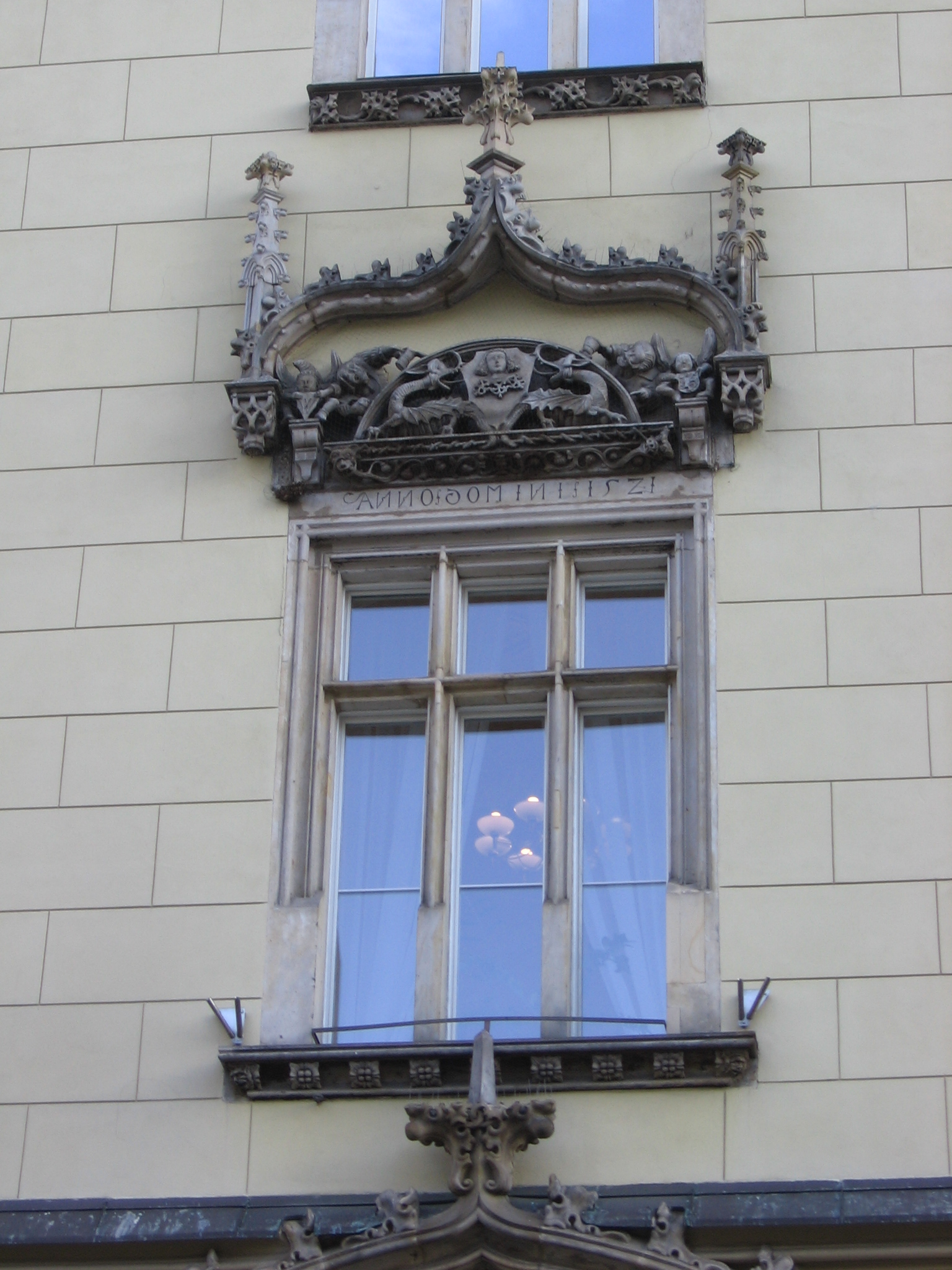 New Town Hall in Wrocław, Tympanum, a spolium from Canvas Hall